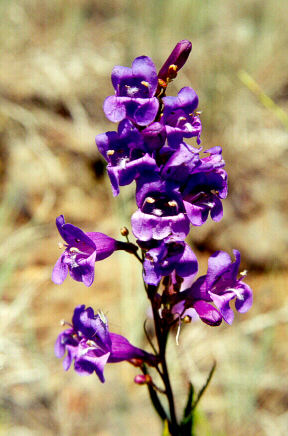 Penstemon venustus, Clearwater National Forest, USA